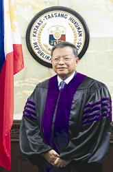 25th CJ